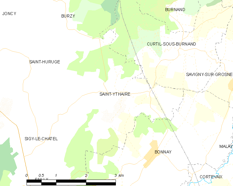 Map of French municipality